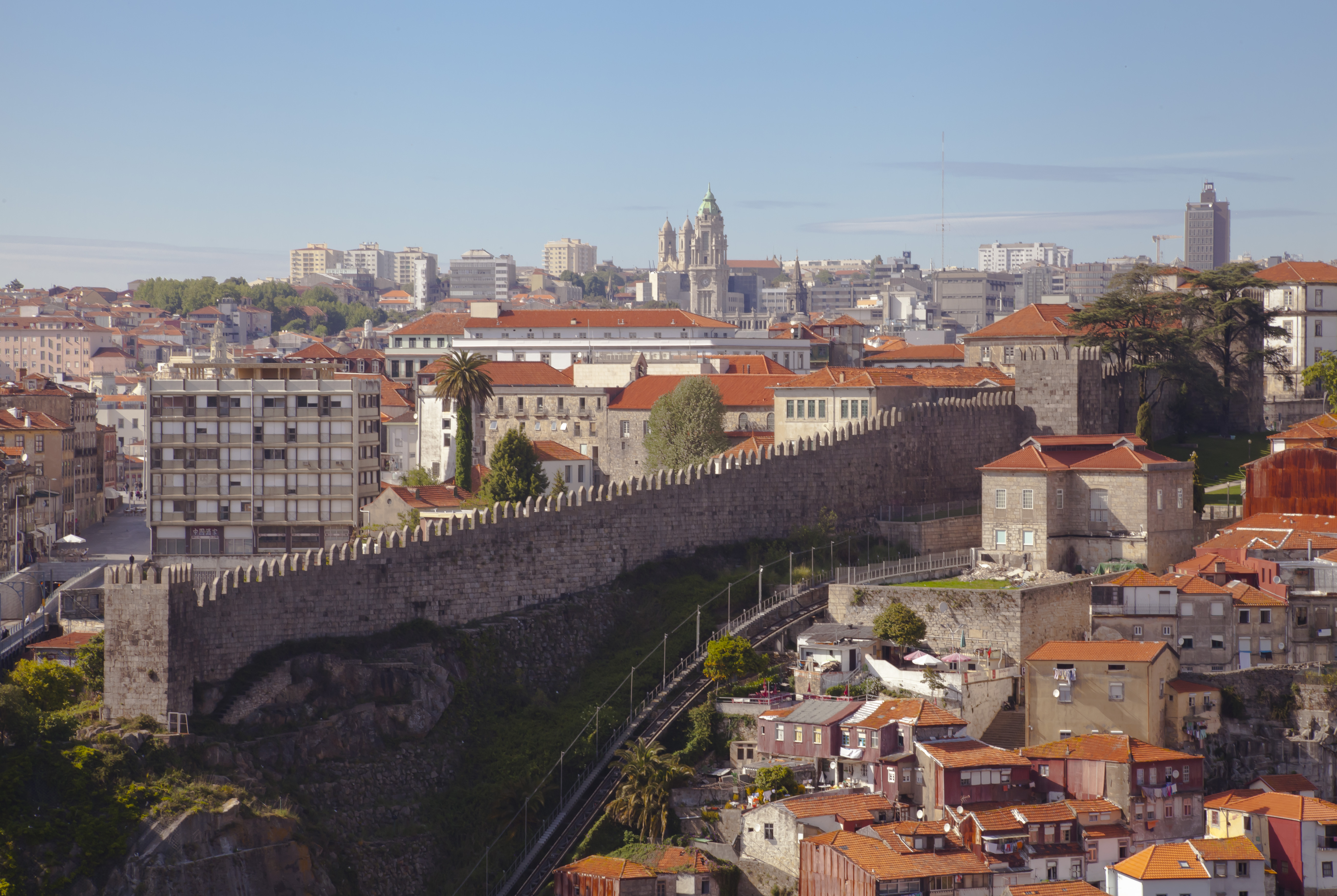 Encosta dos Guindais, Porto, Portugal